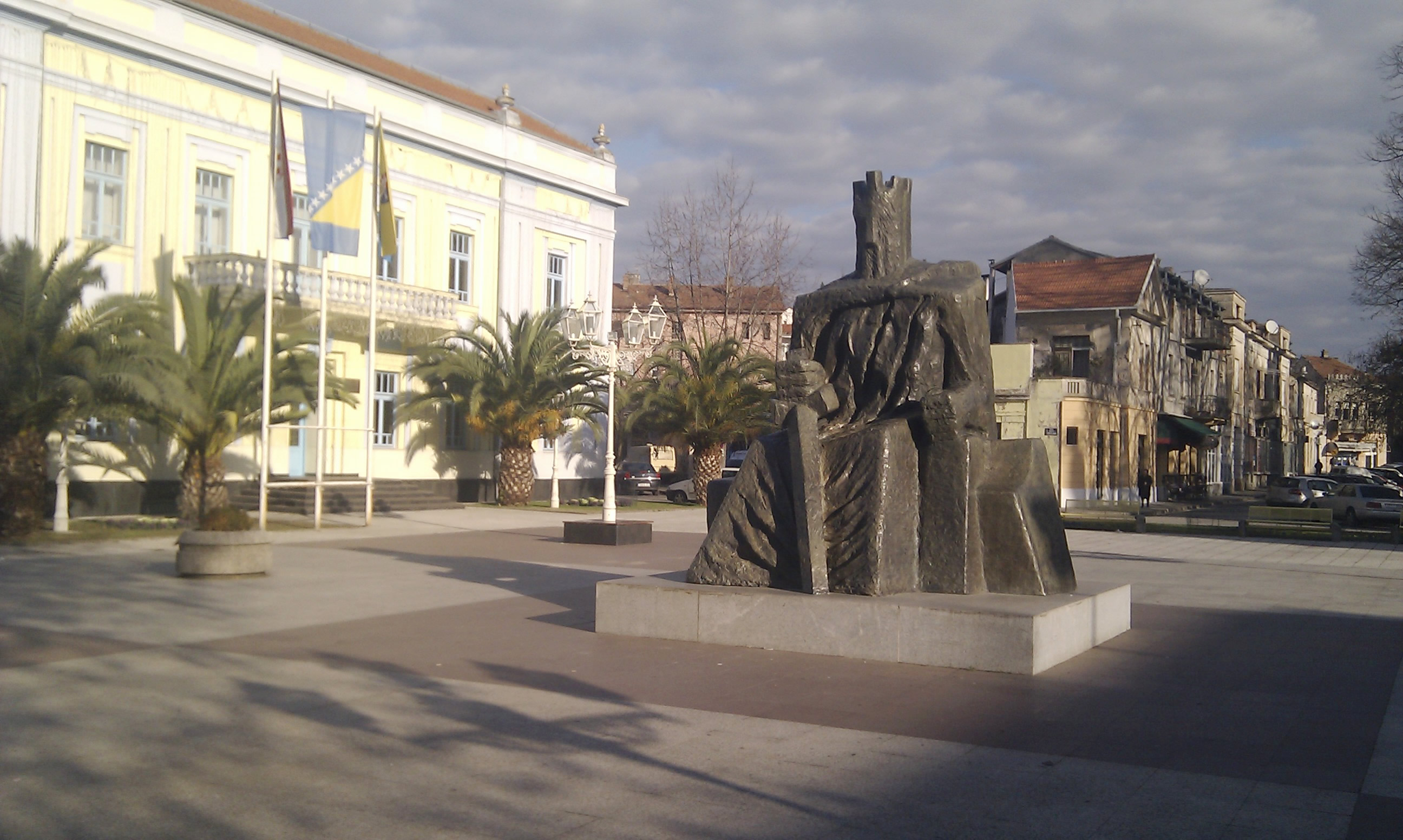 view of cental squere